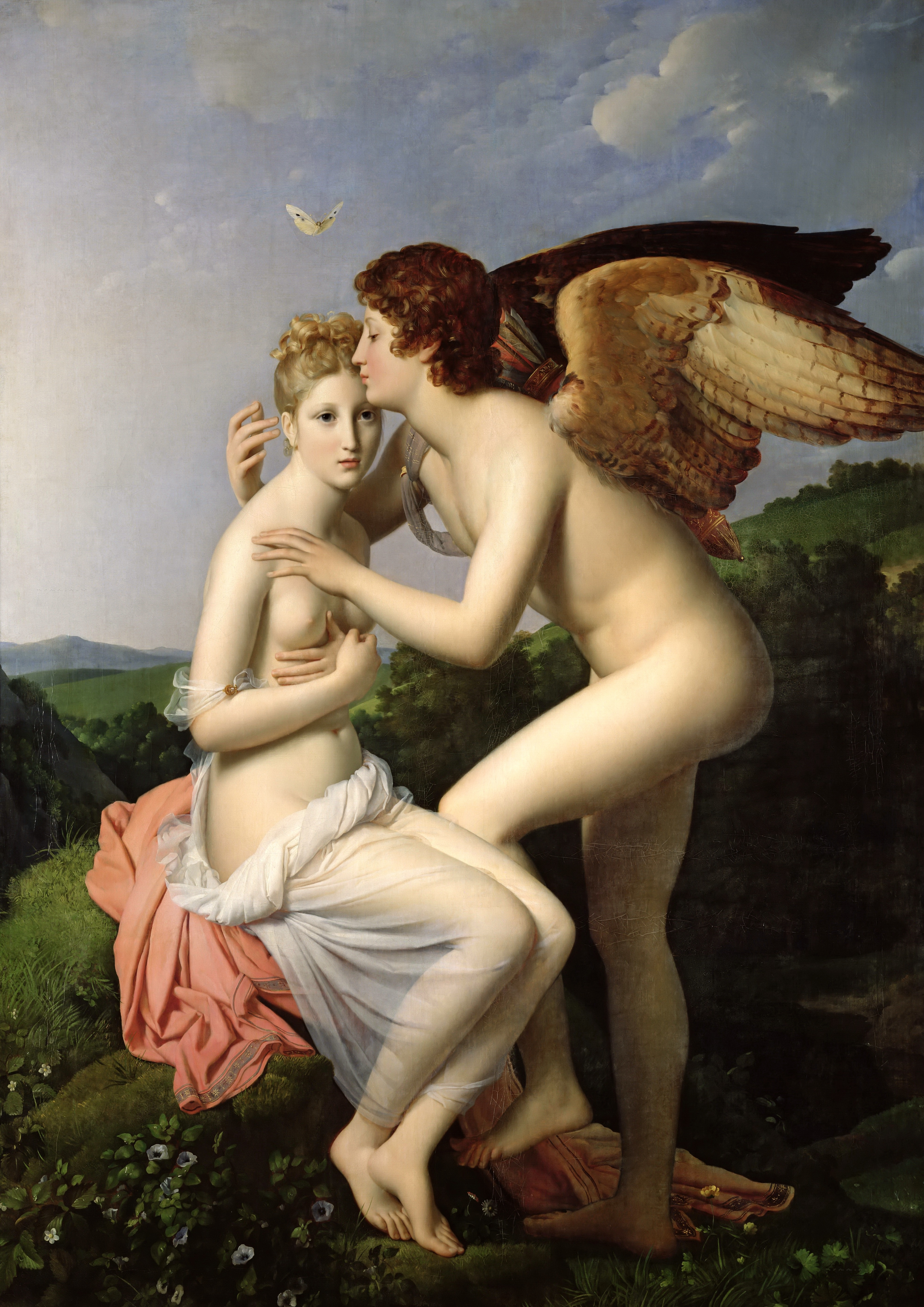 The painting shows Cupid (right) and Psyche (left). The butterfly above her head symbolizes the soul.